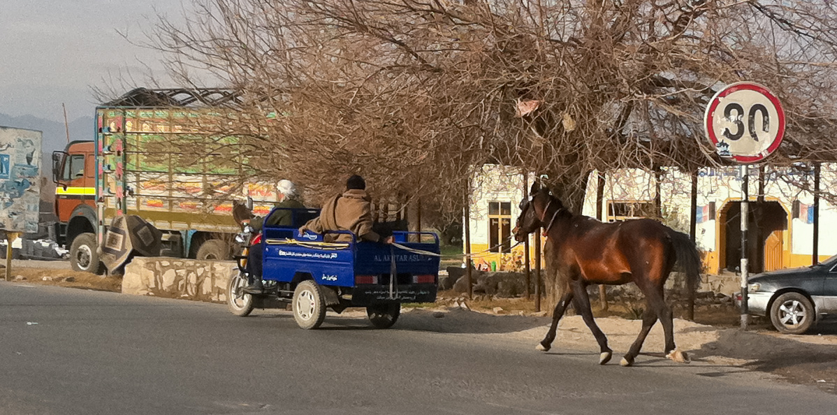 A carriage drawn horse in Jalalabad, Afghanistan